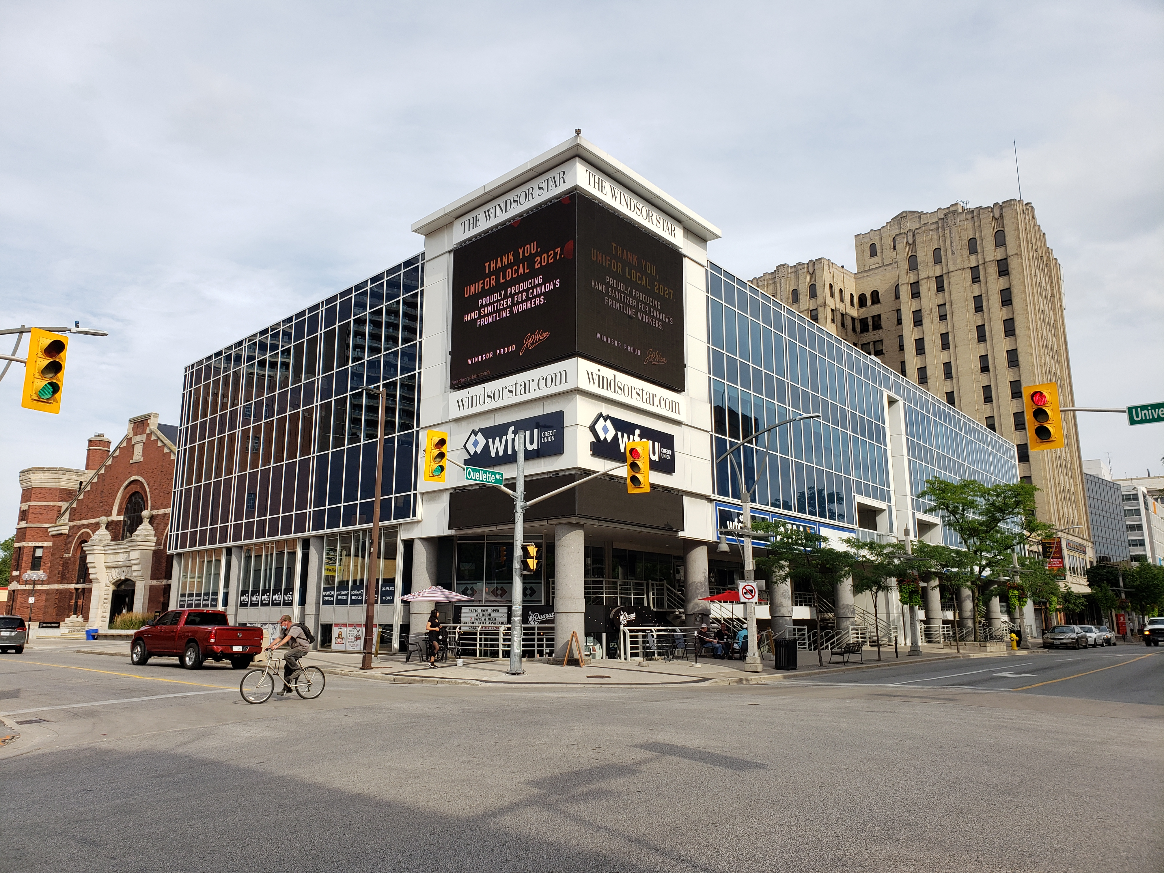 Headquarters of The Windsor Star, in Windsor, Ontario, Canada